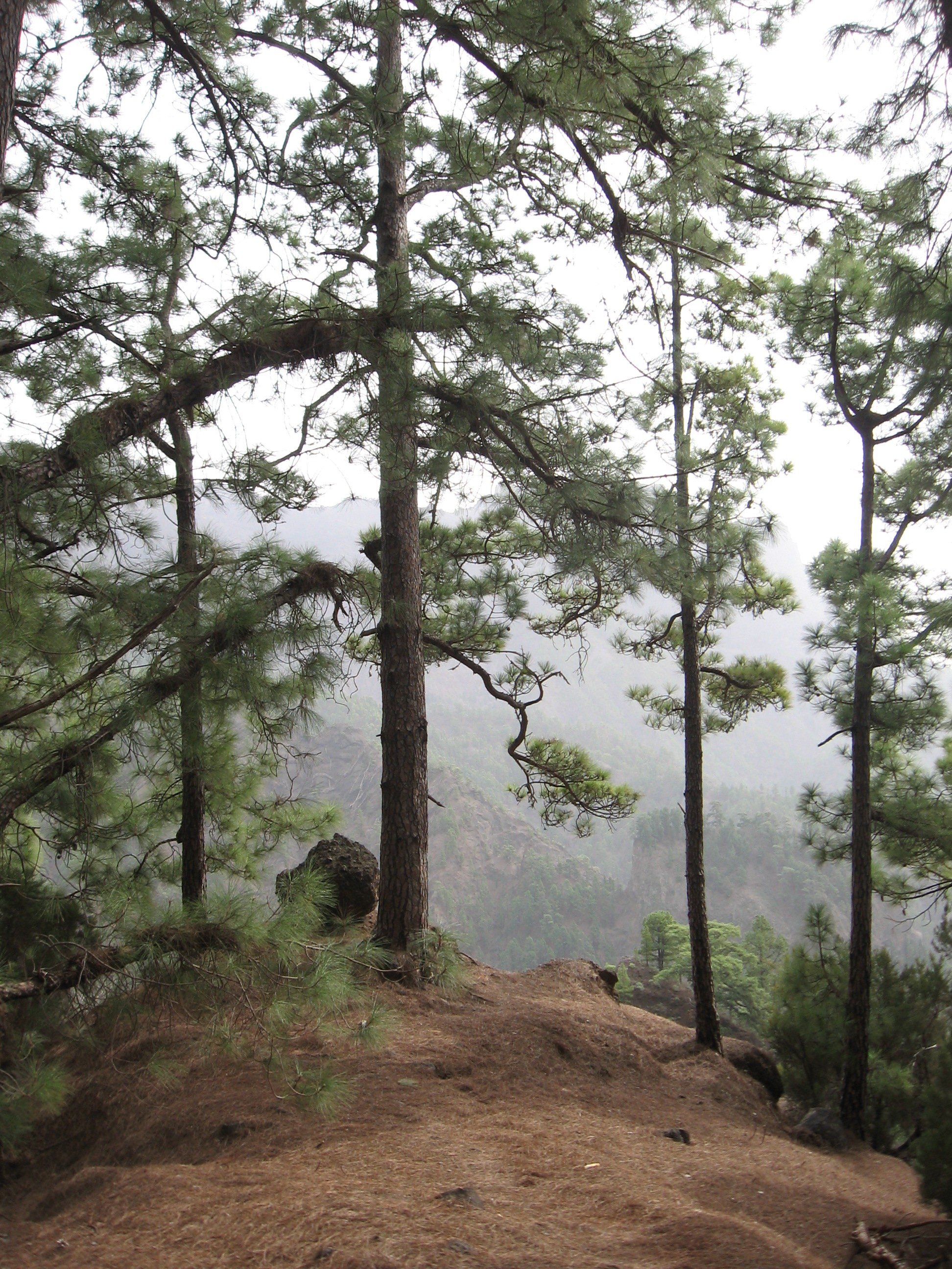 Pinus canariensis forest in part of the Caldera de Taburiente on La Palma, Canary Islands